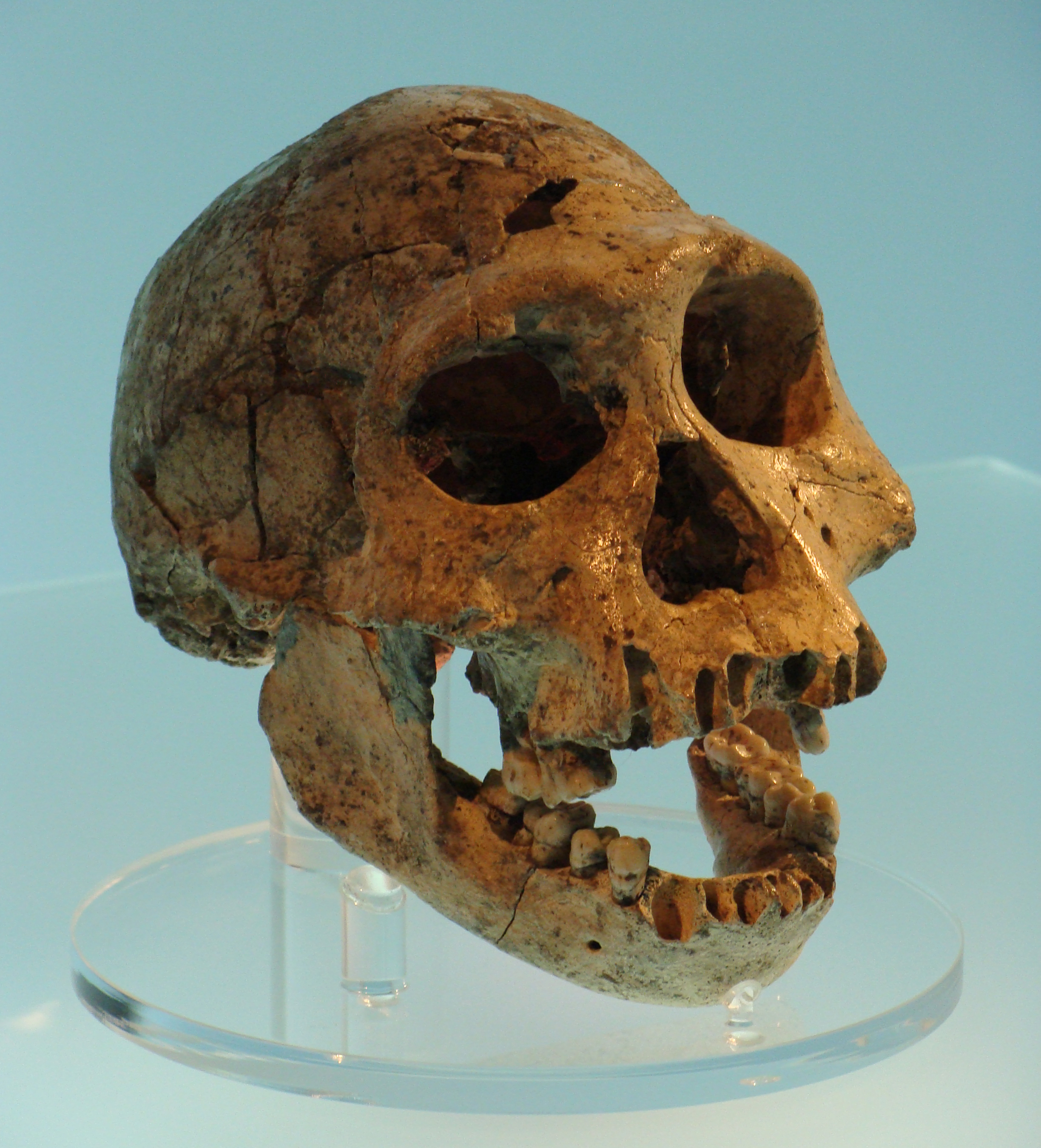 Dmanisi skull, Naturalis, Leiden.